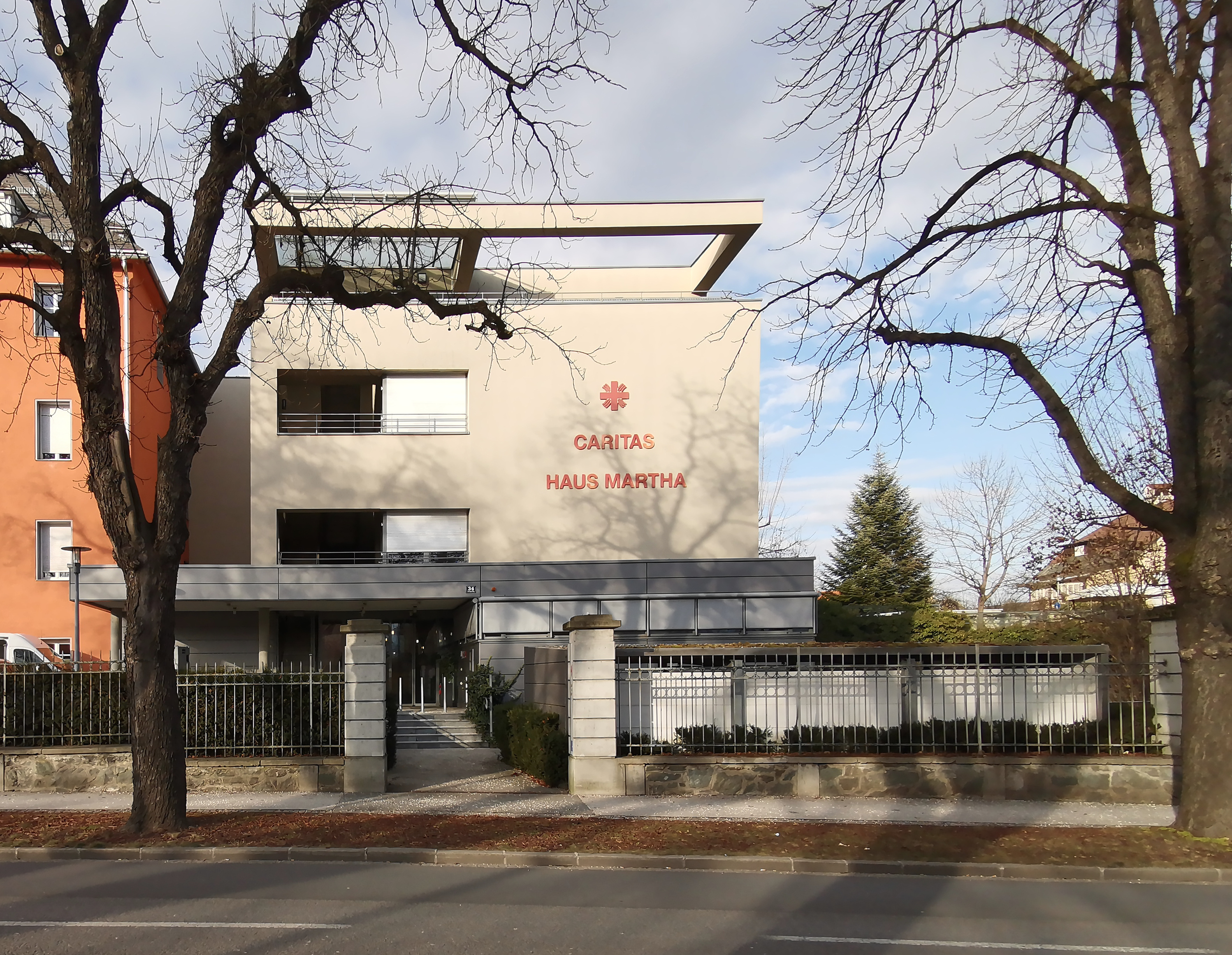 Außenansicht Haupteingang vom Viktringer Ring aus photographiert (20200126 0085)